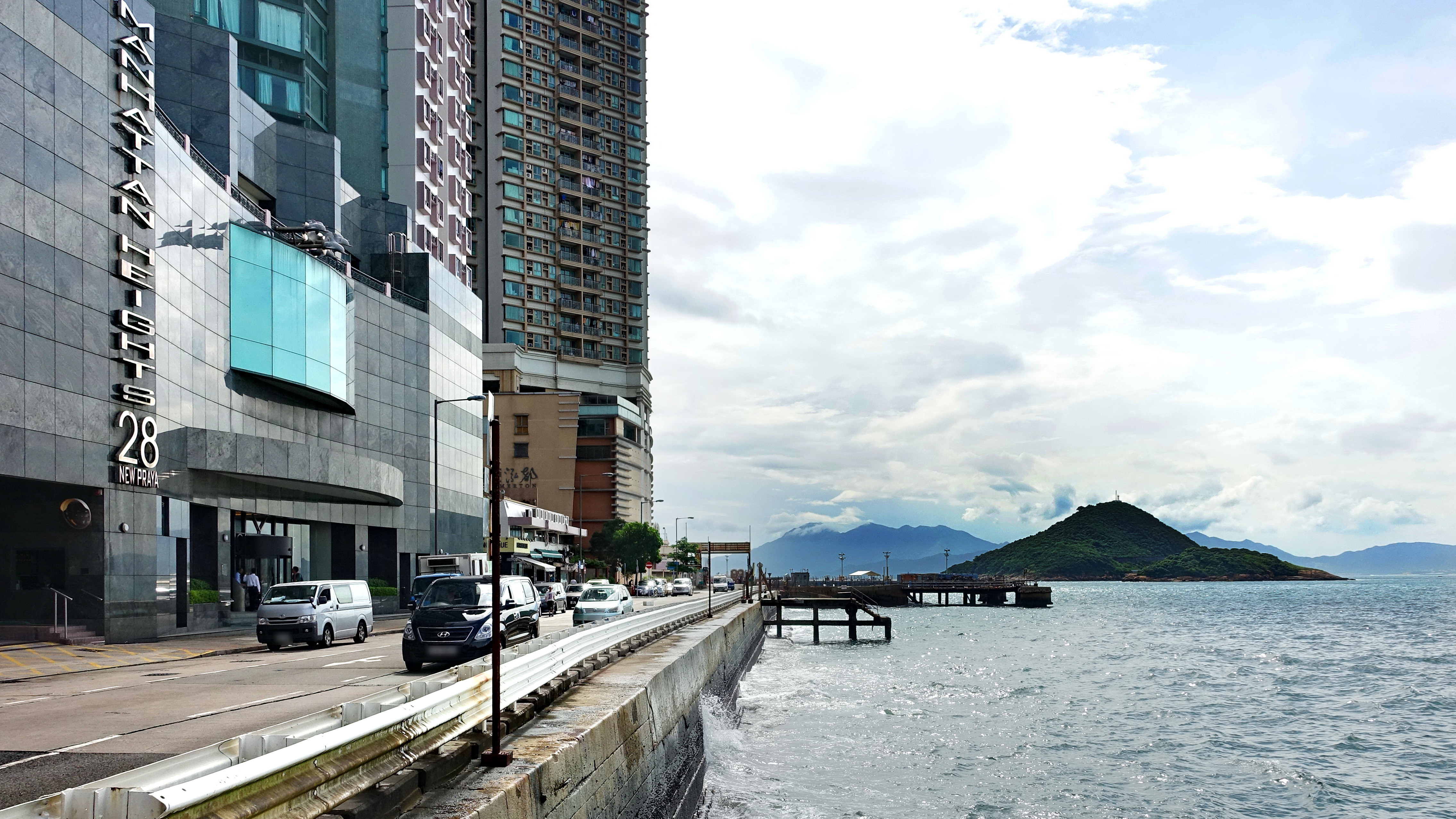 Green Island, Little Green Island, and New Praya, Kennedy Town, Hong Kong.